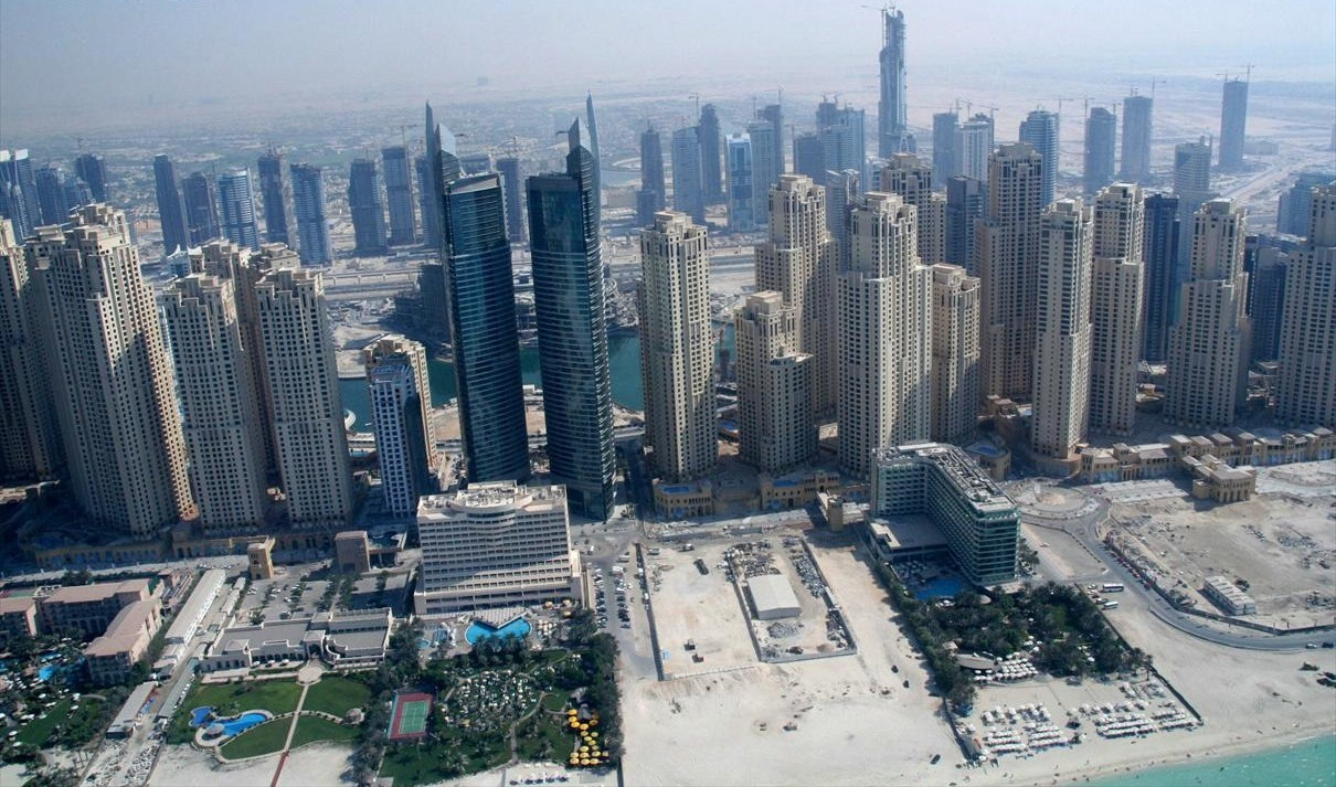 This is a photo showing Dubai Marina (in the front) and Jumeirah Lake Towers (in the back) in Dubai, United Arab Emirates. The beige buildings in the front are apart of Jumeirah Beach Residence, a sub-development in Dubai Marina. This photo was taken from a helicopter ride courtesy of Nakheel.